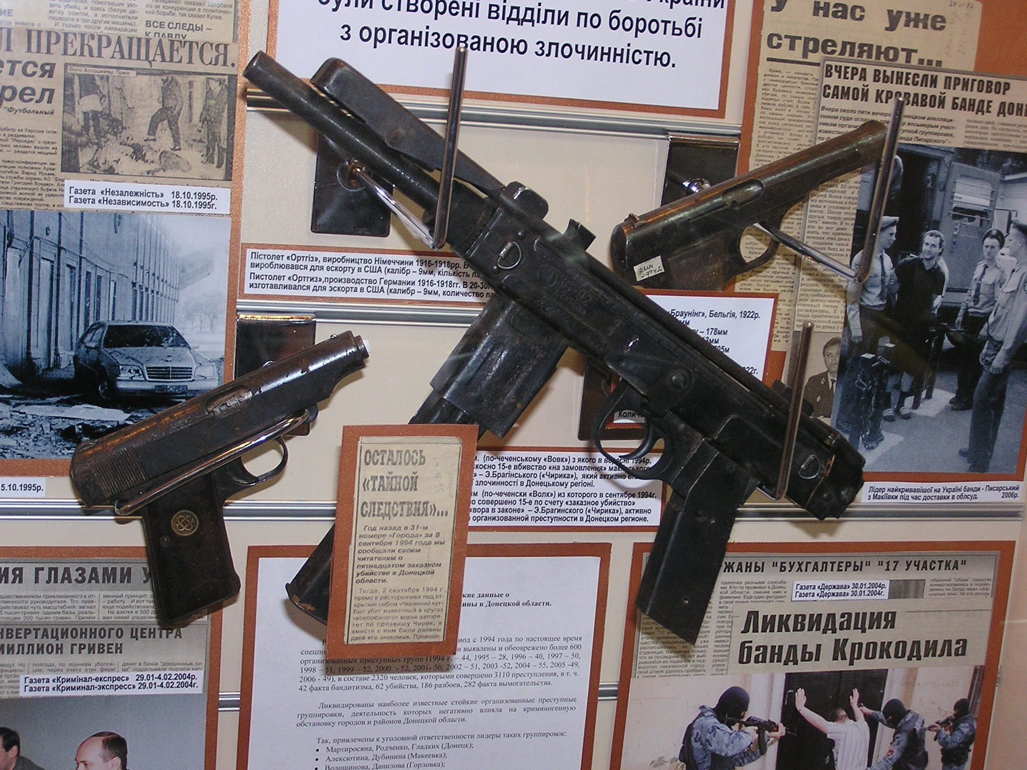 Museum of the History of Donetsk militsiya (Police) - Chechnyan Borz (Wolf) submachine gun